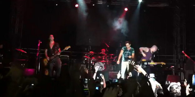 Caramelos de Cianuro live in Valencia (Venezuela), At "Forum de Valencia"